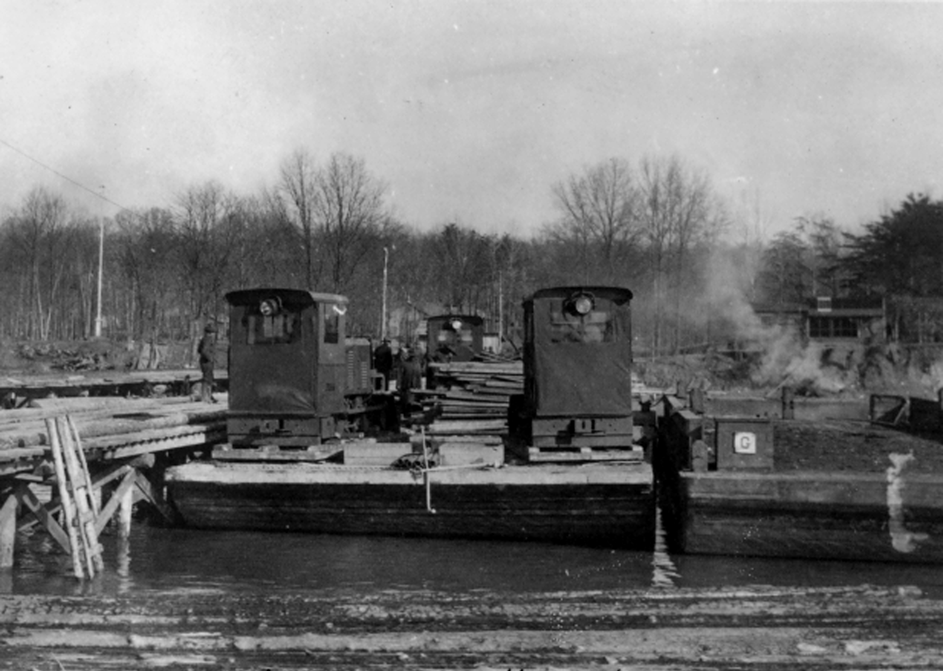 The 2-foot-gauge railway at Camp Humphreys was used to train hundreds of Soldiers heading to frontlines in Europe in 1918. (Photo Credit: Courtesy of Fort Belvoir's Historical Department)